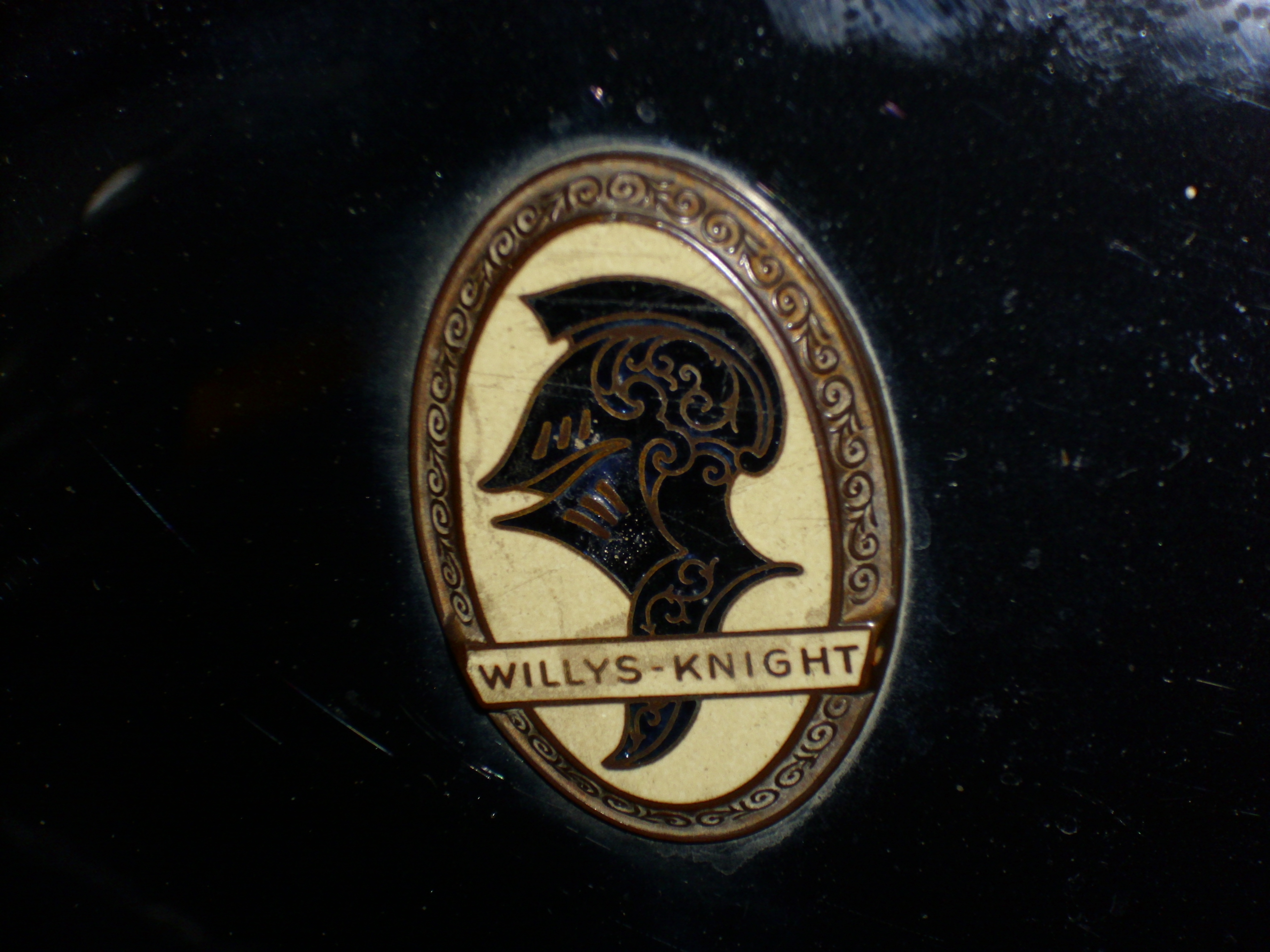 Emblem Willys